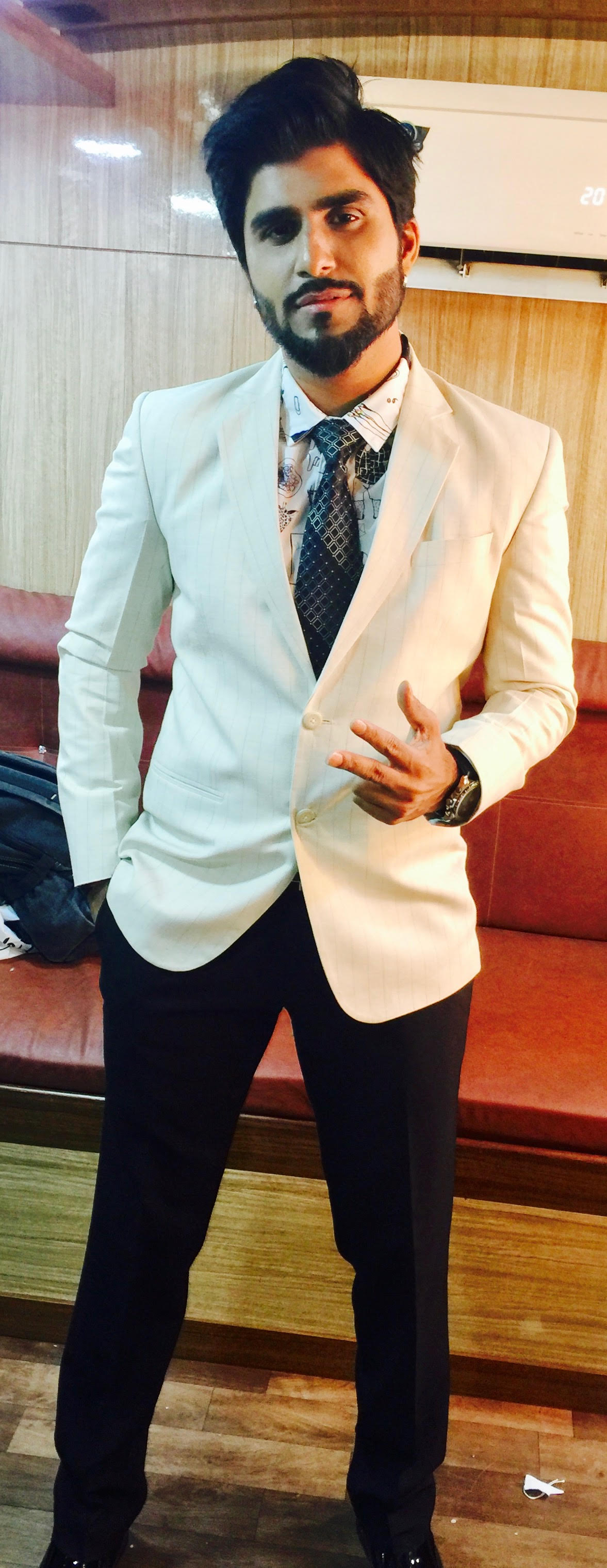 This picture was taken at a musical award function in February 2017.